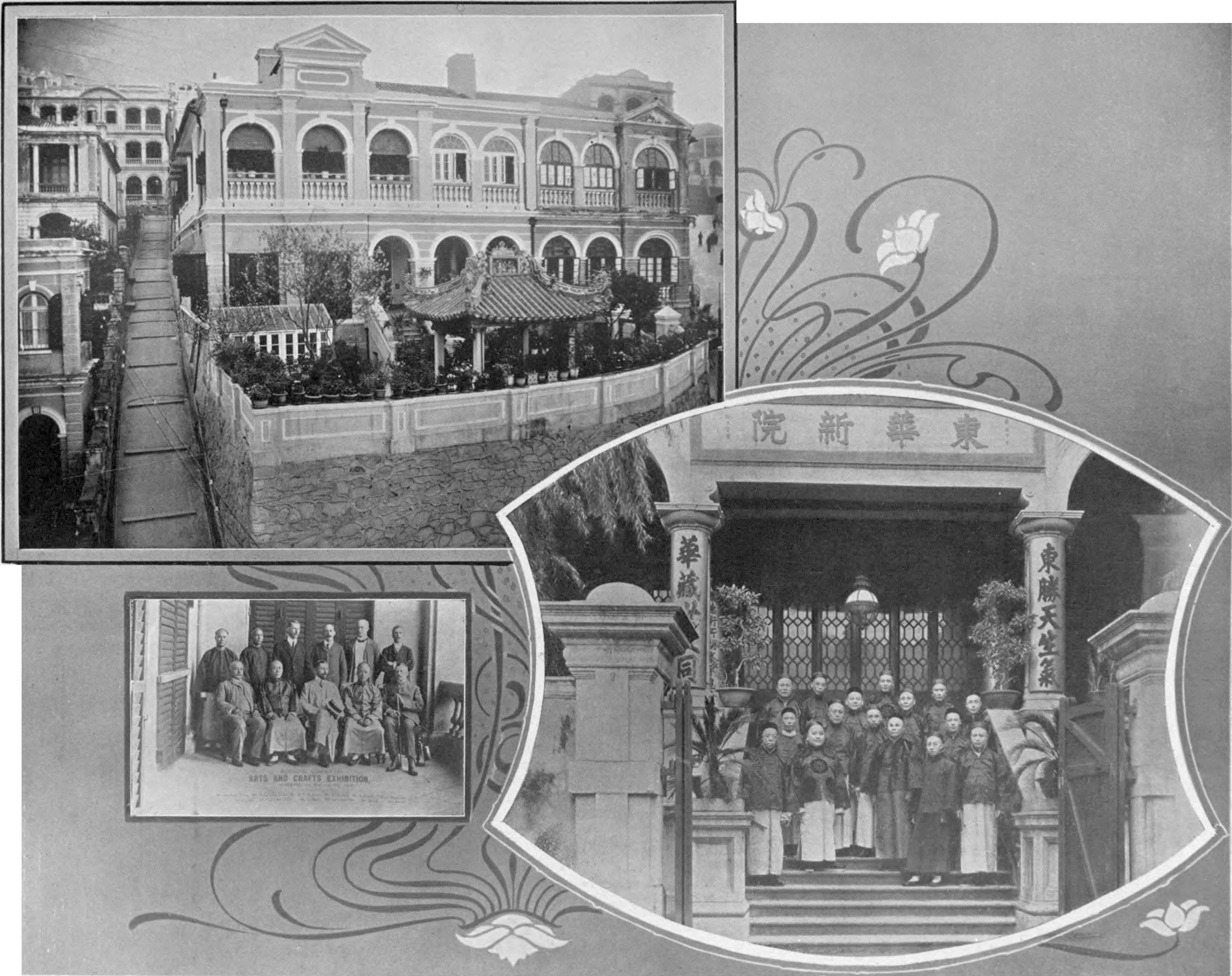 Montage of Chinese participation in Hong Kong life1) MR. HO KOM TONG'S RESIDENCE (This residence was subsequently demolished and Kom Tong Hall built on the same site. )2) WORKING COMMITTEE OF THE ARTS AND CRAFTS EXHIBITION.3) THE COMMITTEE OF THE TUNG WAH HOSPITAL.